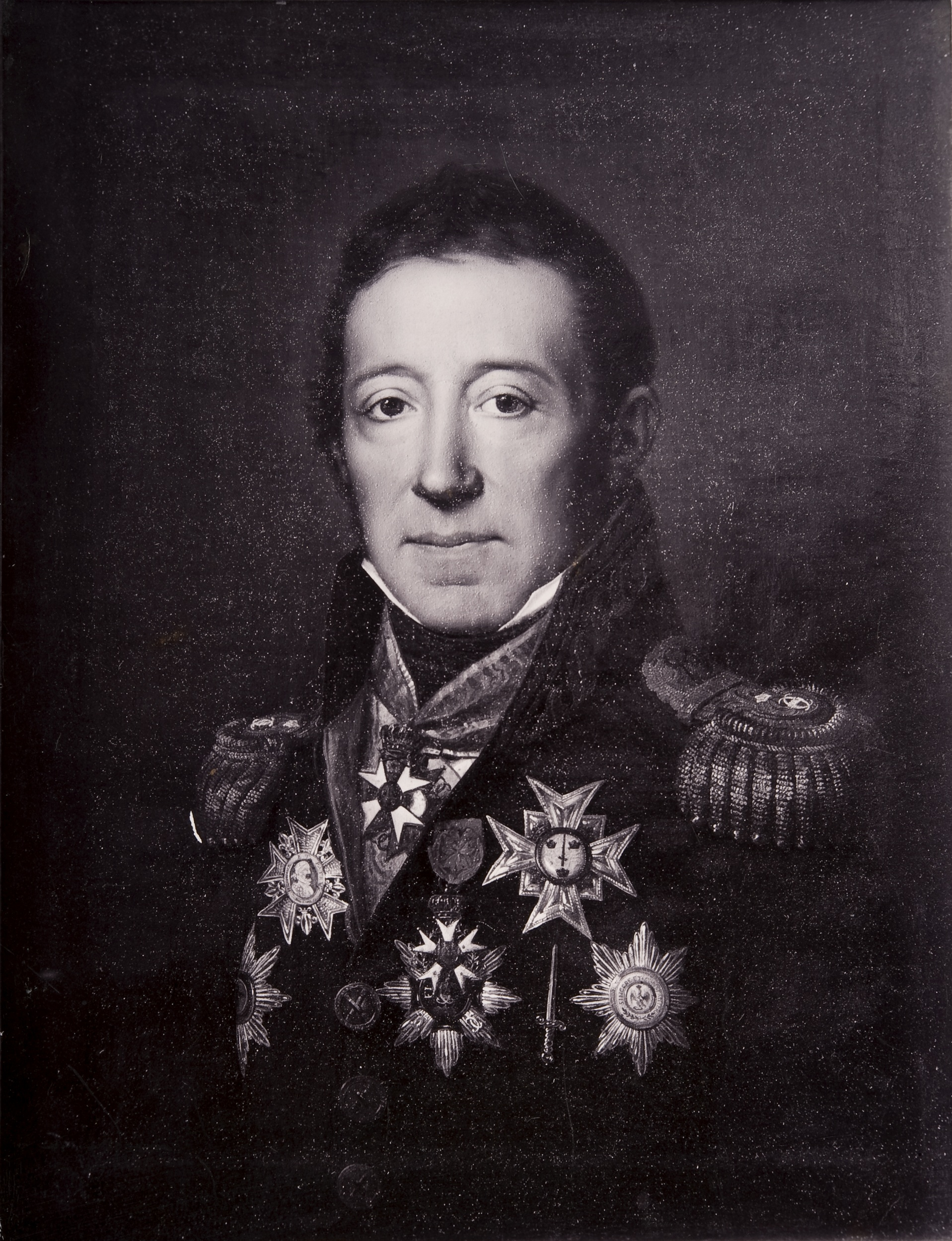 Johan Henrik Tawast, (1763-1841), Swedish general.